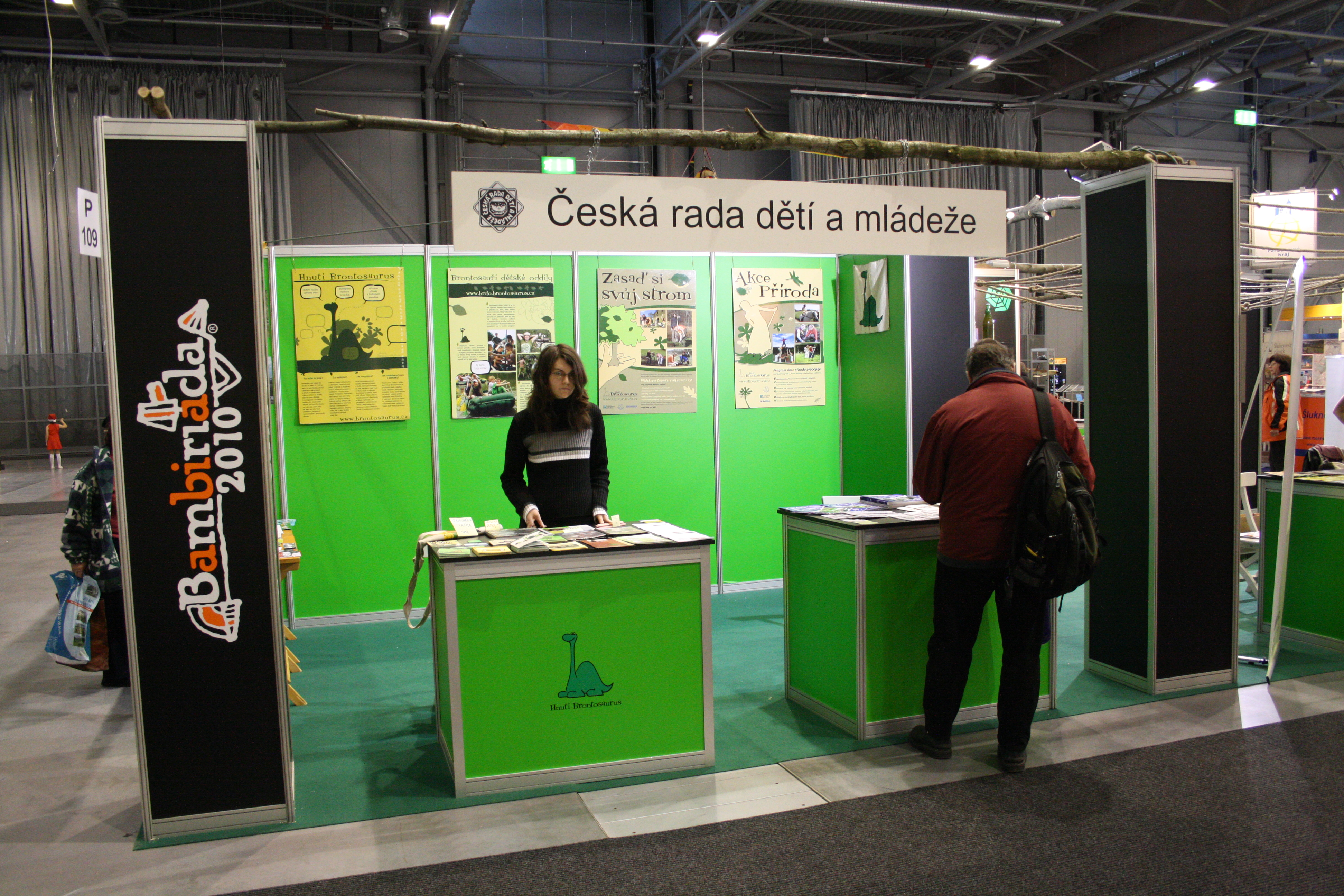 Presentation of touristic destinations of Czech Republic.